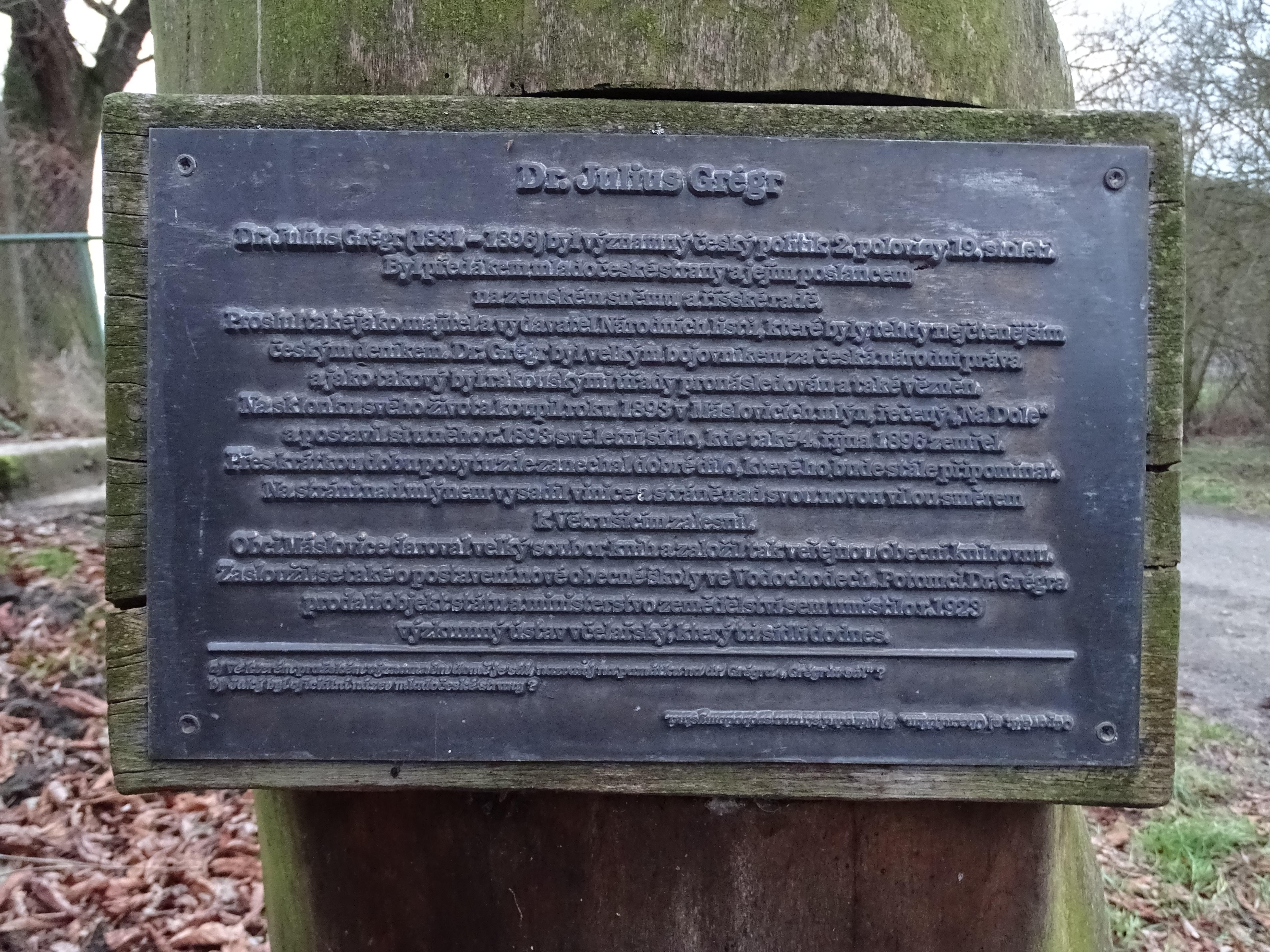 Máslovice-Dol, Prague-East District, Central Bohemian Region, Czech Republic. A monument to Julius Grégr.